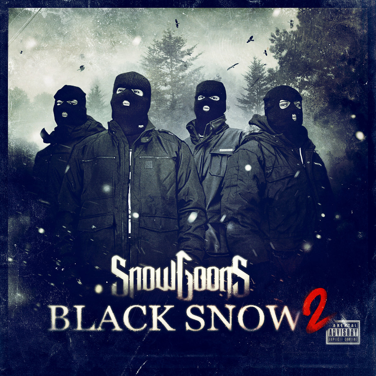 Cover des Albums „Black Snow 2“